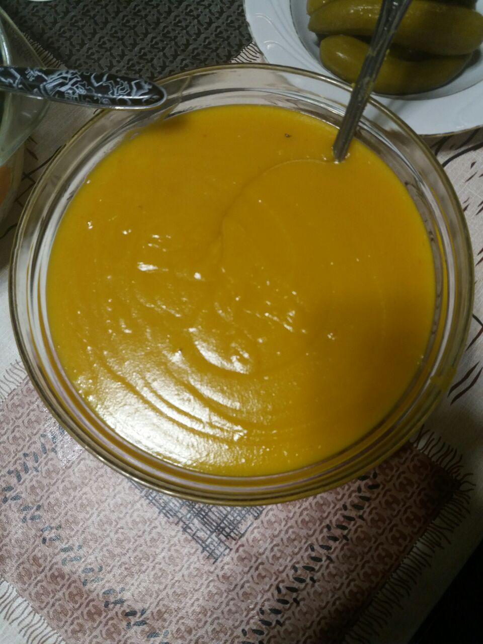 Kuymak of Tabriz